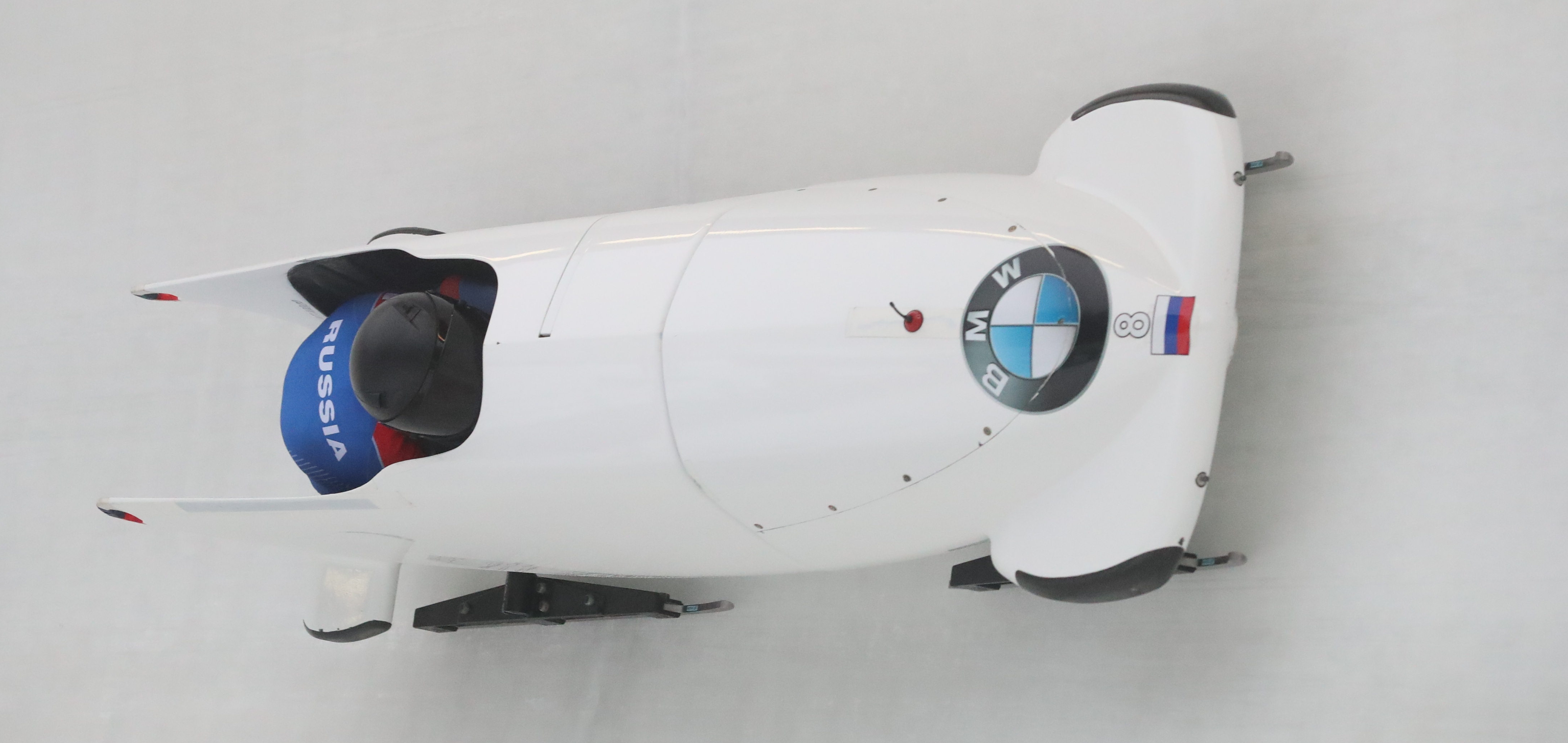 2-man Bobsleigh Women's World Cup race at the 2018/19 Bobsleigh World Cup in Altenberg